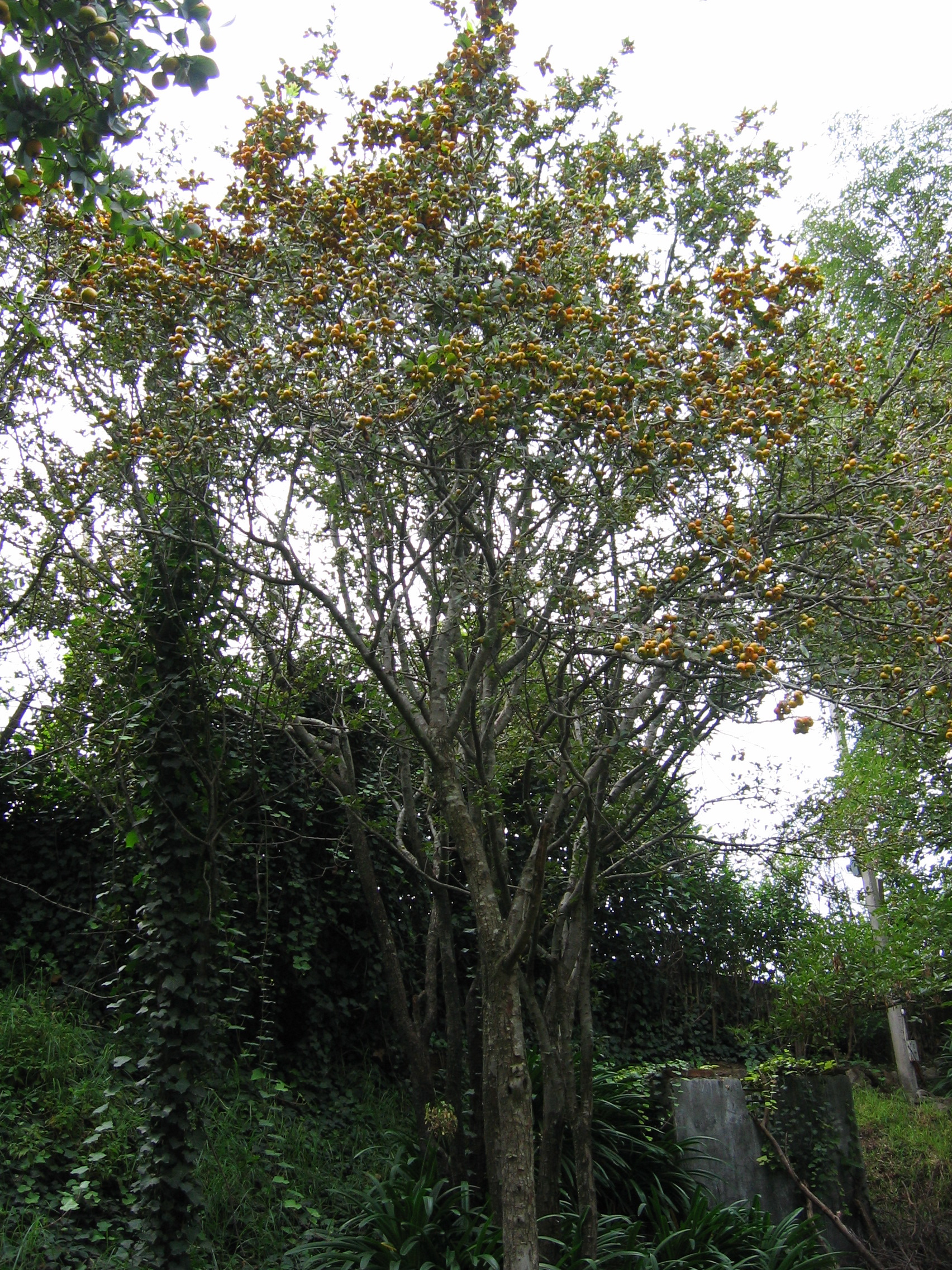 A bunch of tejocote Crataegus mexicana (mexican hawthorn)